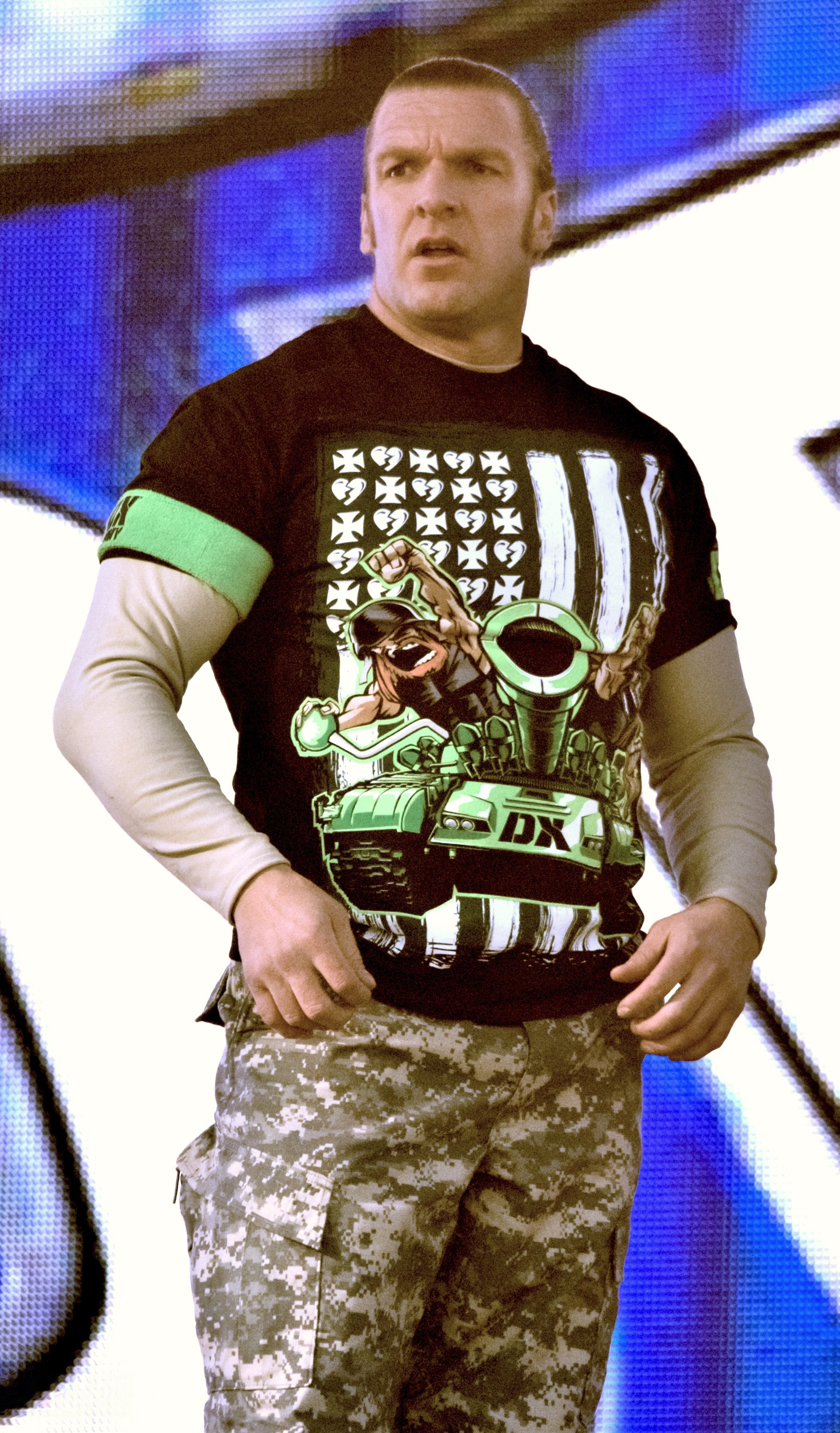 Triple H at WWE's Tribute to the Troops show in Fort Hood, Texas, on December 11, 2010.